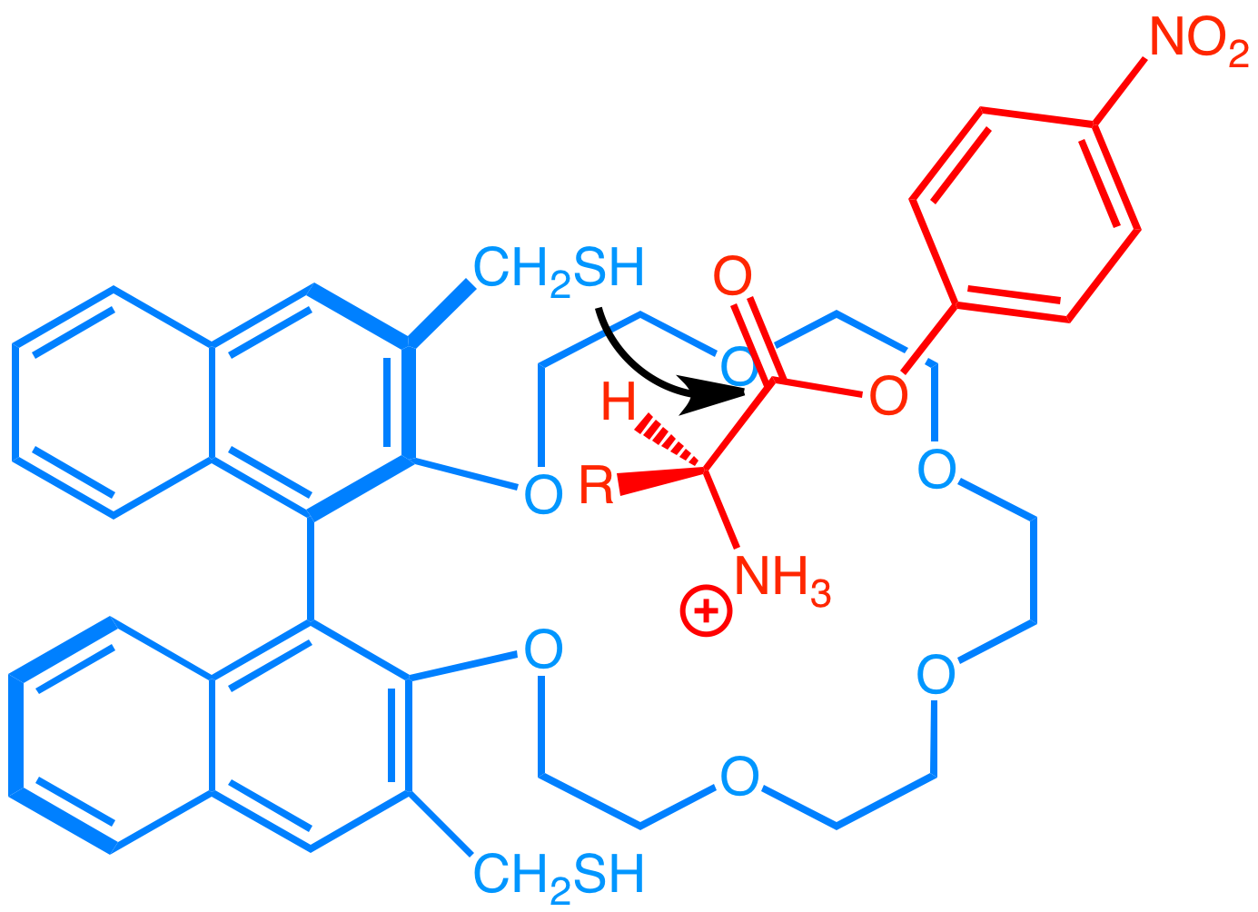 Crown Ether Acyl Transferase developed by Cram et al.